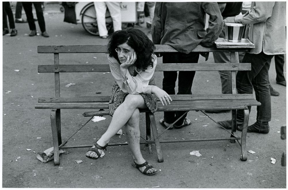 Accession Number: 2007:0274:0041 Maker: James Jowers (American b. 1938) Title: Tompkins Sq. Pk. Date: 1967 Medium: gelatin silver print Dimensions: Image: 15.9 x 24 cm Overall: 20.1 x 25.4 cm George Eastman House Collection General – information about the George Eastman House Photography Collection is available at For information on obtaining reproductions go to